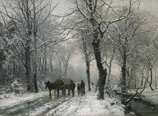 As Evening Falls